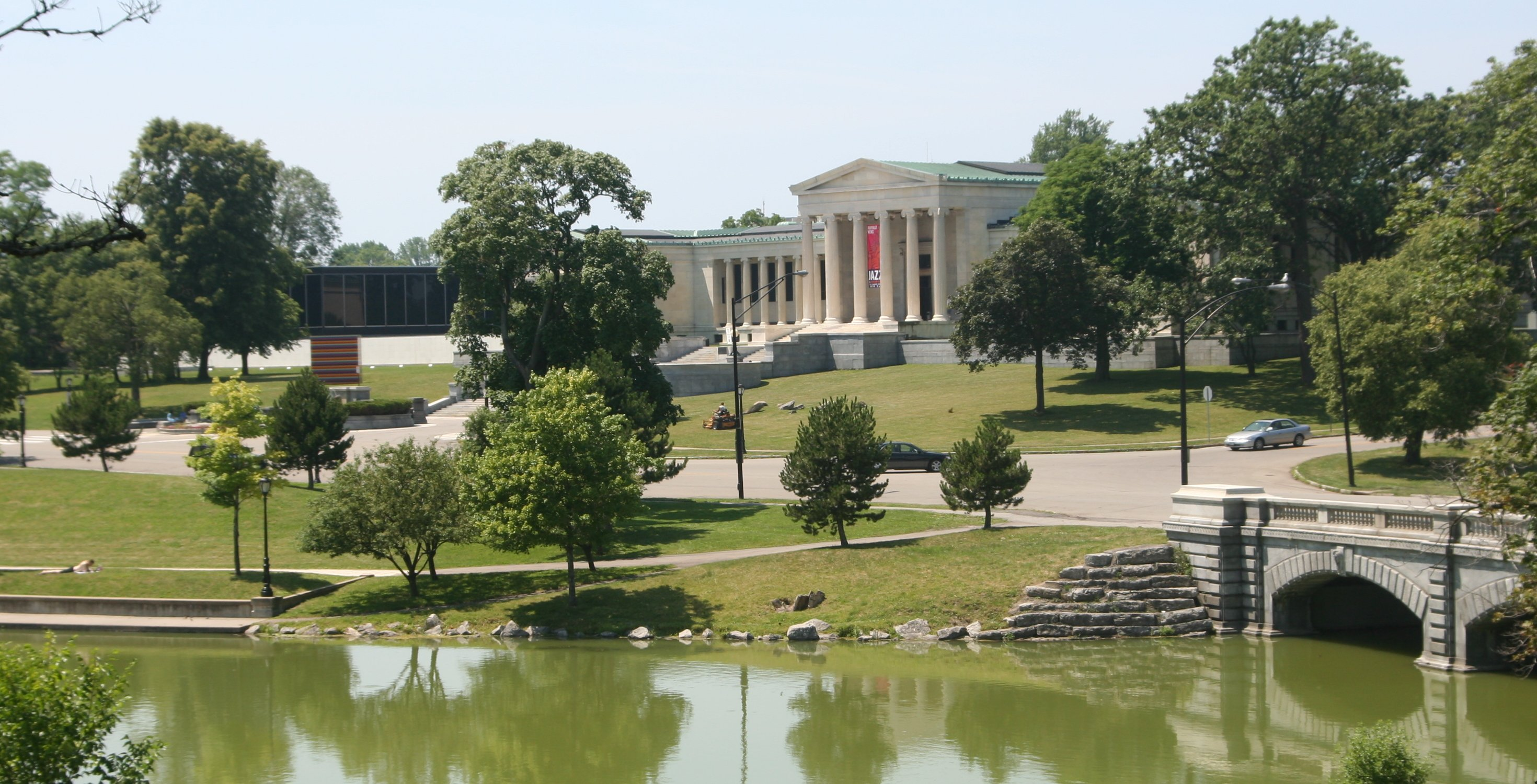 Albright-Knox Art Gallery, rear, overlooking the lake in Delaware Park